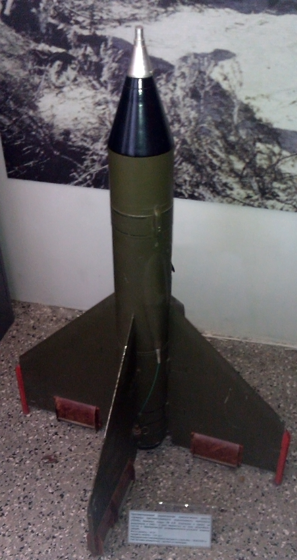 3M6 Shmel wire-guided anti-tank missile of the Soviet Union on display of Central Armed Forces Museum (Moscow).